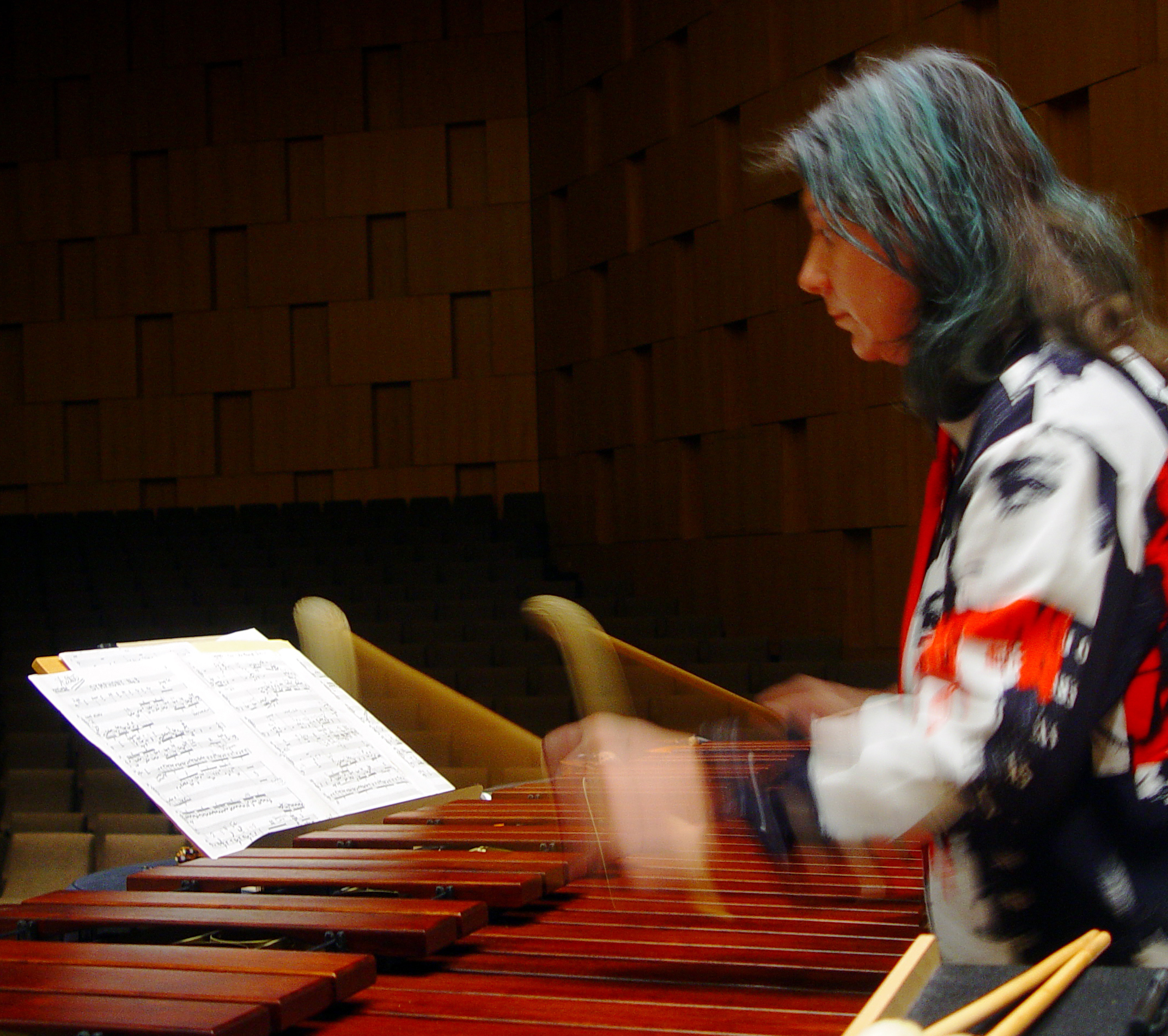 A marimba player (NDR Radiophilharmonie), Hannover, 2003. Long exposure time allows tracking of object's typical movement pattern